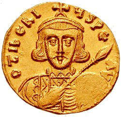 Solidus of Tiberius Apsimar.